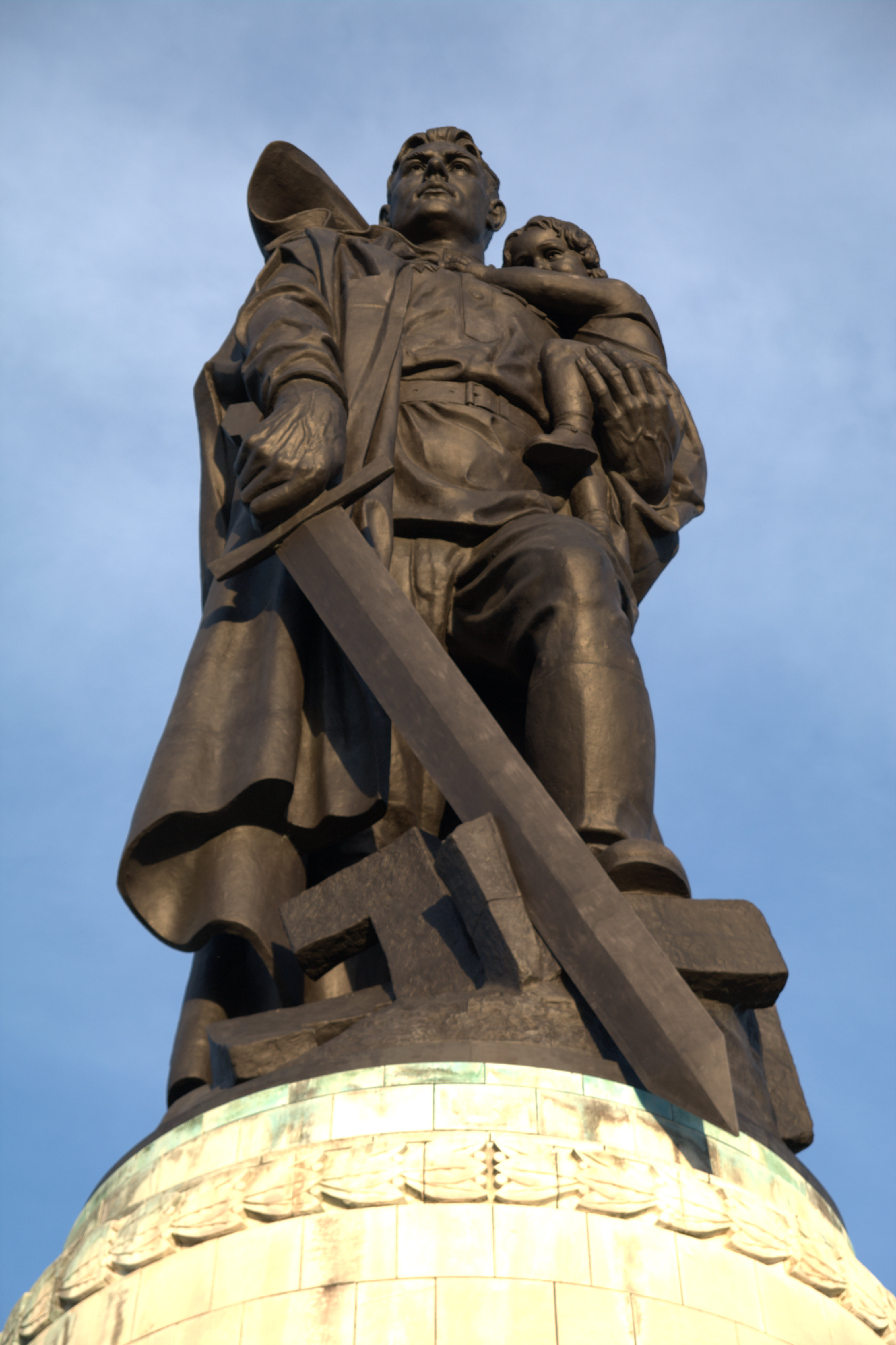 «Во́ин-освободи́тель» — монумент в берлинском Трептов-парке